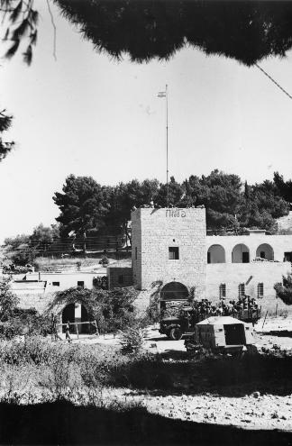 Abu Ghosh Police Station after occupation by Harel Brigade, 1948